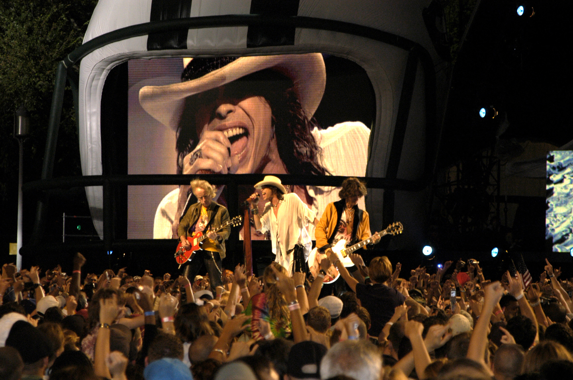 Washington D.C. (Sept. 4, 2003) -- Aerosmith performs on stage during the Operation Tribute to Freedom, NFL and Pepsi sponsored “NFL Kickoff Live 2003” Concert on the Mall. Organizers provided priority seating for military members and their families. Among the other performers were Britney Spears, Aretha Franklin, Mary J. Blige and Good Charlotte. Operation Tribute to Freedom (OTF) was set up by the Department of Defense as a way for Americans to show their appreciation to our men and women in uniform. U.S. Navy photo by Photographer's Mate 2nd Class Rob Rubio (RELEASED)